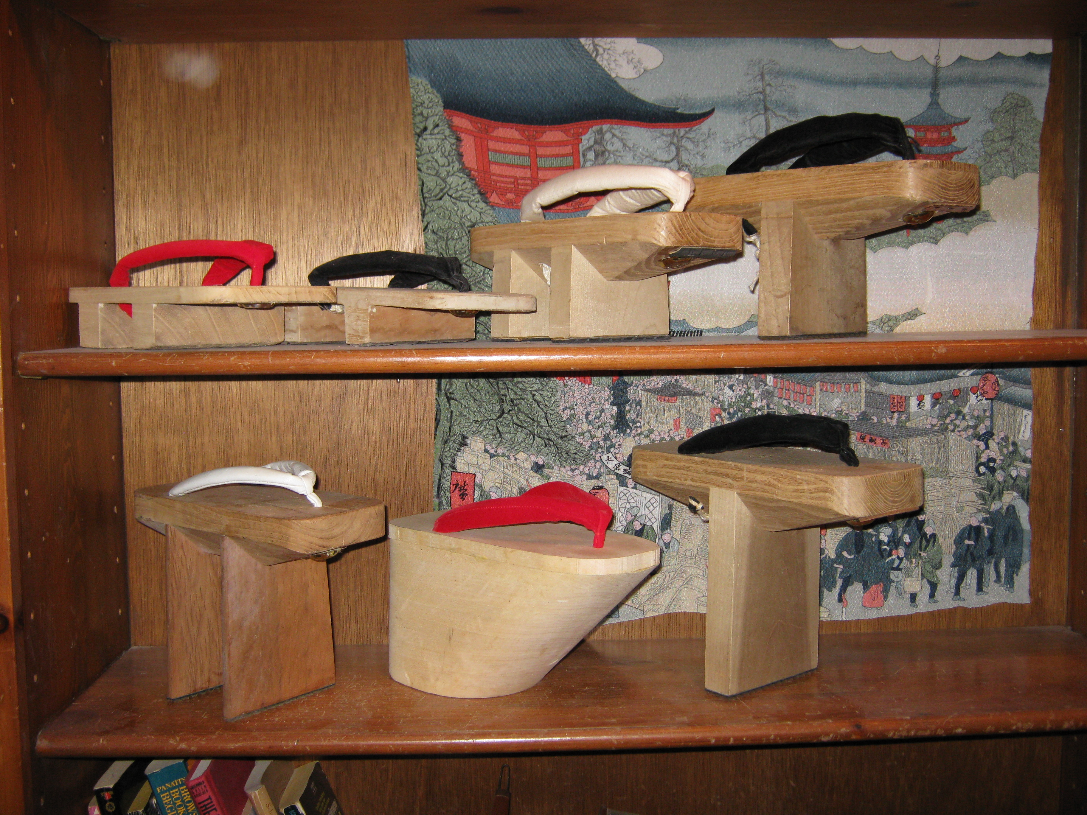 Traditional Japanese footwear. Top: Plain geta with red straps, plain geta with black straps, tall geta, one-tooth Tengu geta. Bottom: tall ashida rain geta, Maiko's okobo (reproduction), tall Tengu geta.